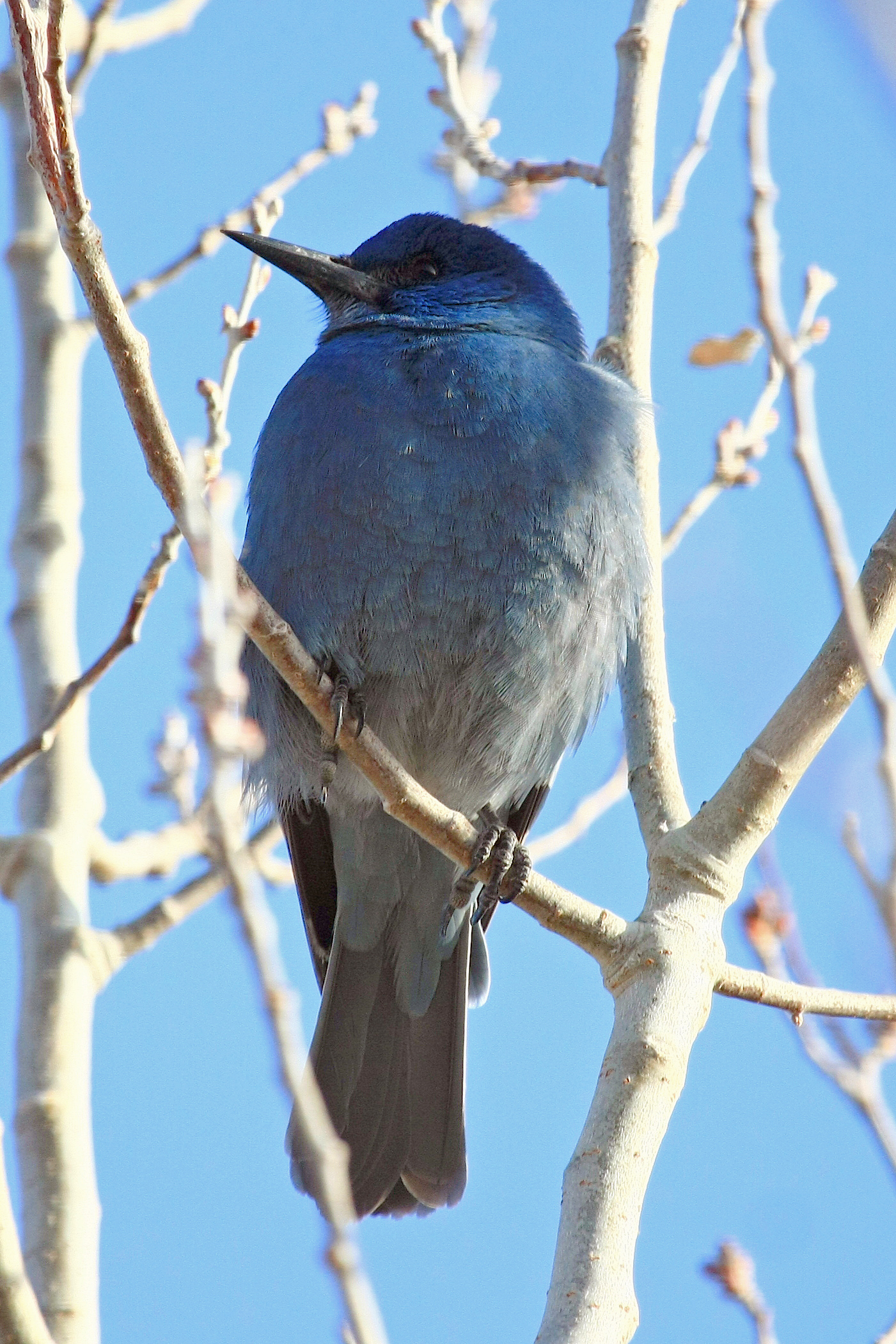 Gymnorhinus cyanocephalus (Pinyon Jay)